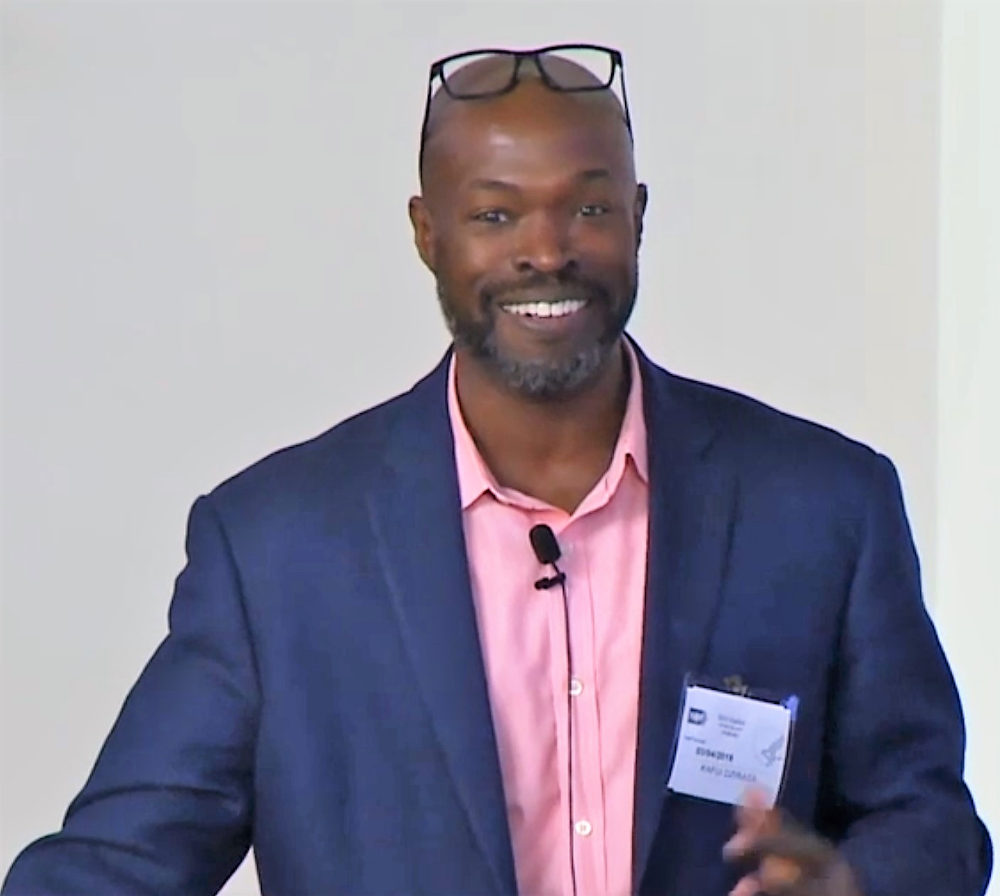 NIH VideoCast - Mesoscale Neural Encoding of Emotional Behavior Air date: Monday, March 4, 2019, 12:00:00 PM Description: NIH Neuroscience Series Seminar The focus of Dr. Dzirasa lab’s research is to determine how genetic variants interact with environmental factors (including stress and drugs of abuse) to lead to mental illness. They accomplish this by implanting multiple small electrodes directly into the brains of mice that express genes which lead to mental illness in humans. They then monitor the activity of many brain cells simultaneously as these mice perform various behavioral tasks. They also record brain activity in mice exposed to various environmental stresses, and drugs of abuse. It is their hope that these experiments will one day lead to the discovery of new treatments for our patients with mental illness. For more information go to Author: Kafui Dzirasa, M.D., Ph.D., Duke University, Institute for Brain Sciences CIT Live ID: 28097 Permanent link